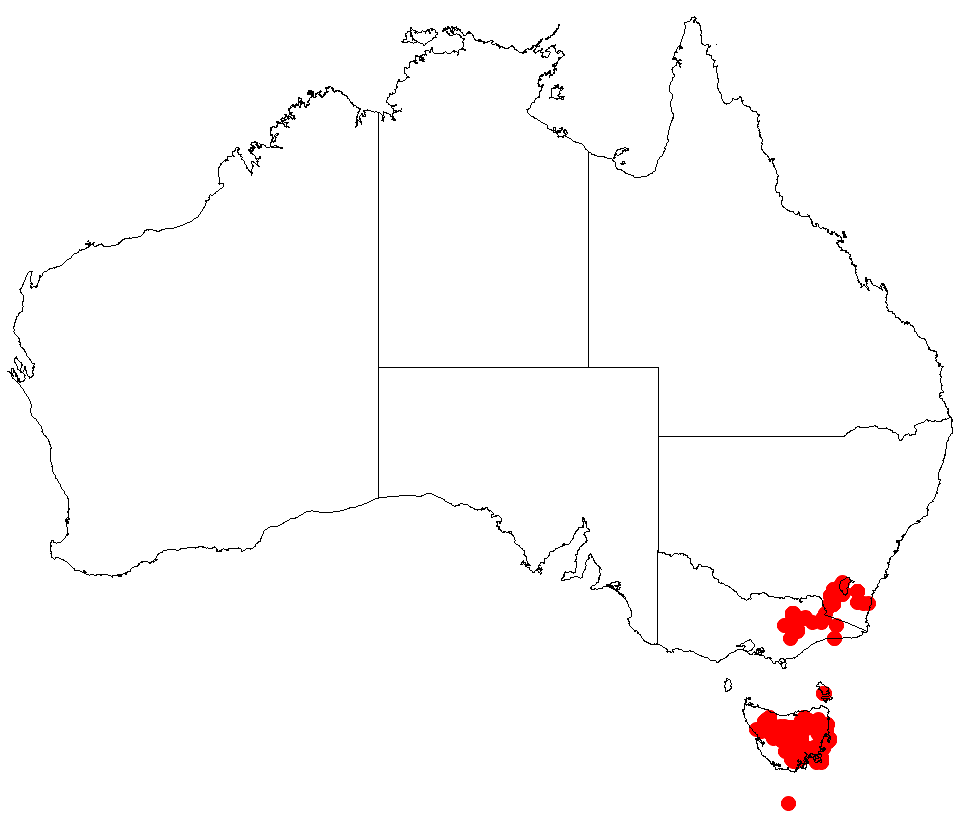 Hakea lissosperma Occurrence data downloaded from Australasian Virtual Herbarium on 22 November 2018 using